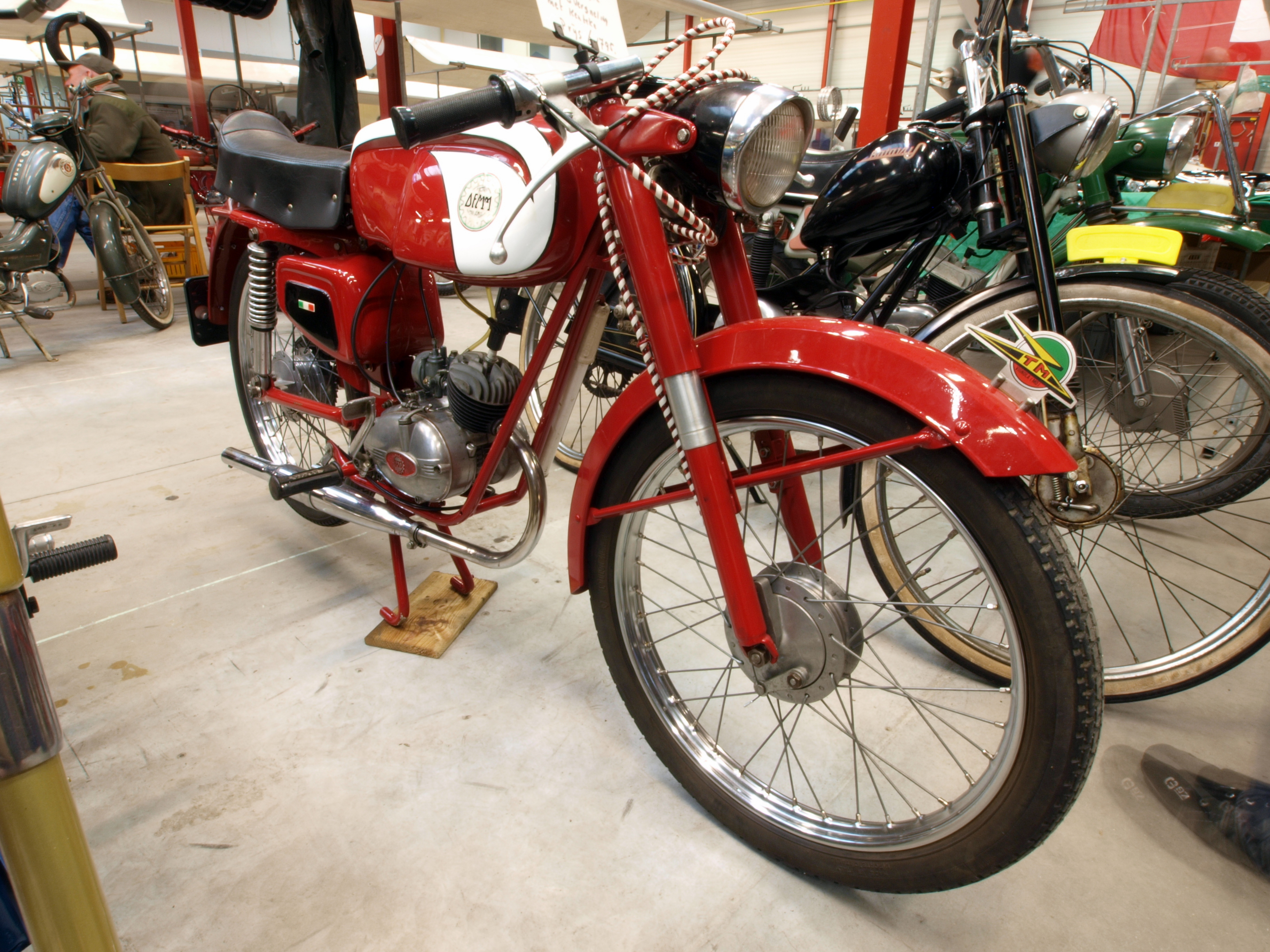 Photographed at the Bromfietsshow Bollenstreek 2010, The Netherlands.